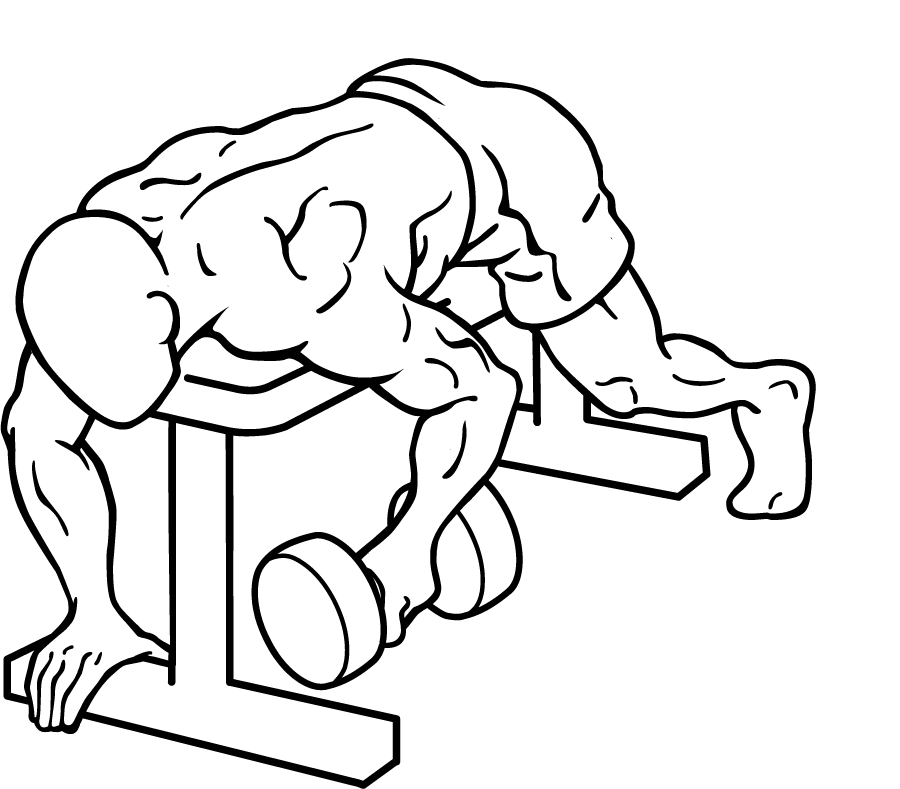 an exercise of shoulder